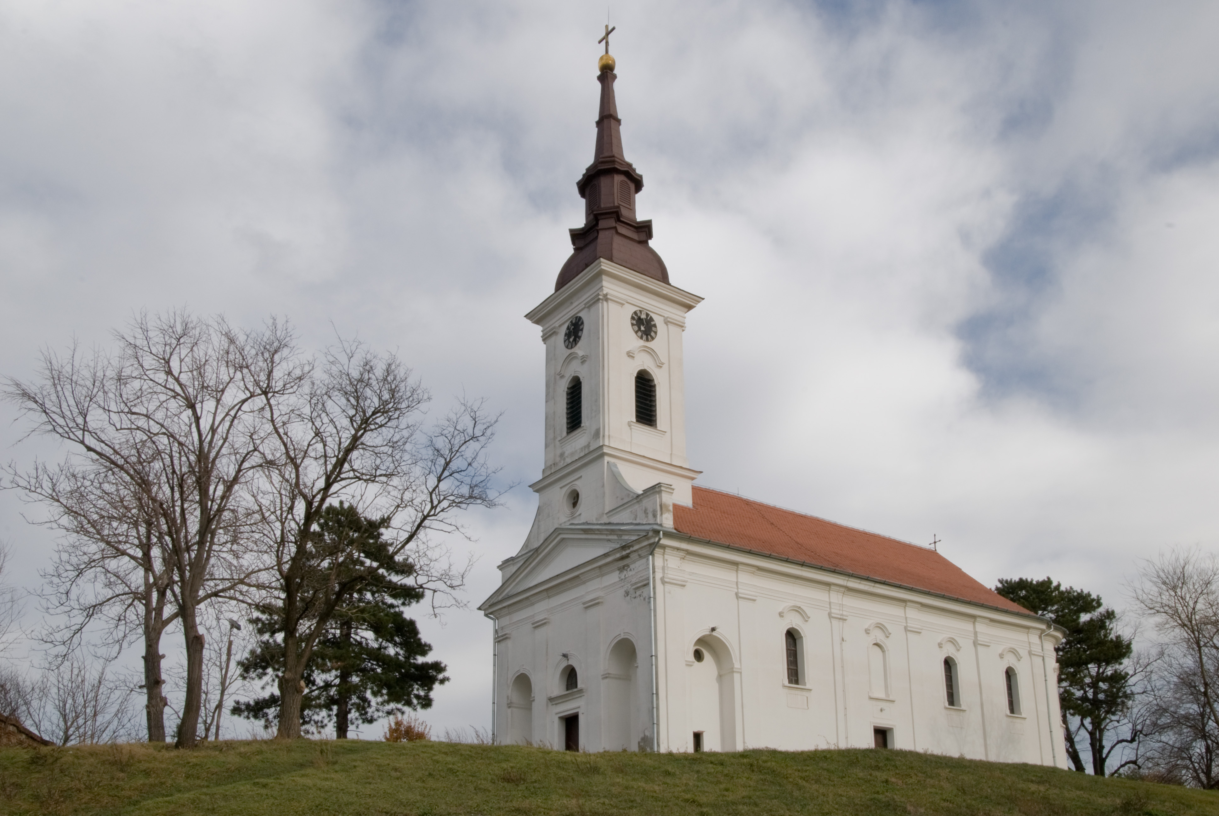 Church of Musts of Saint Nicholas in Deliblato- general look